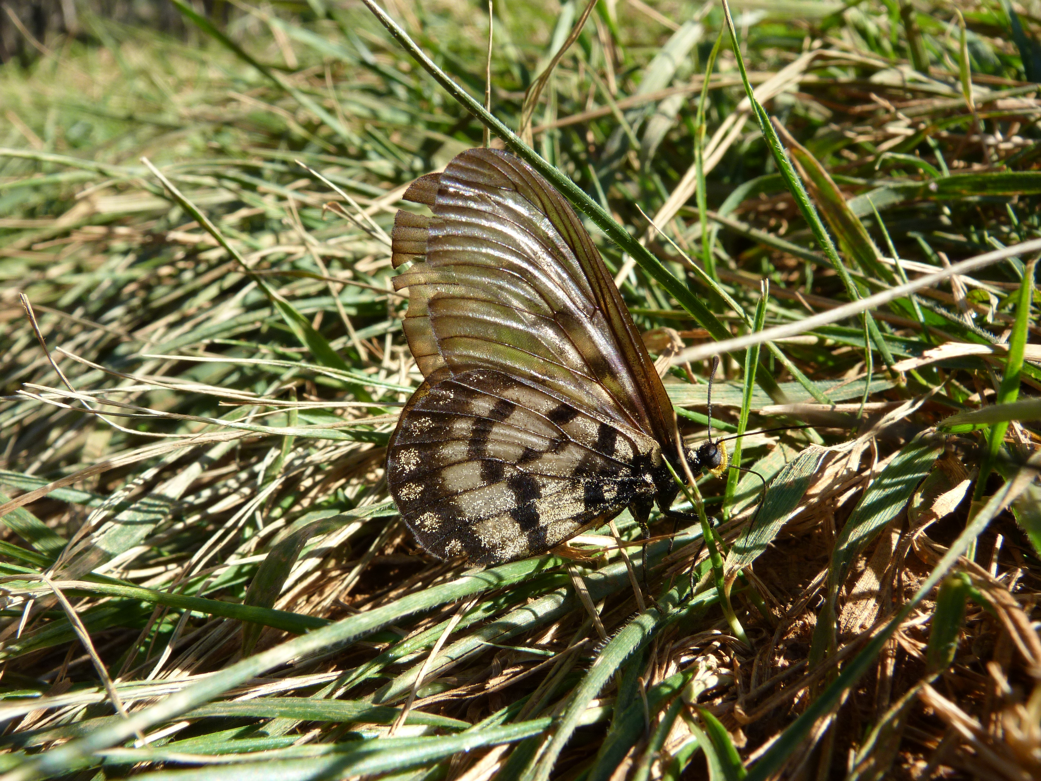 Acraea andromacha (Fabricius, 1775), Black Mountain, Canberra, ACT, 4 April 2011